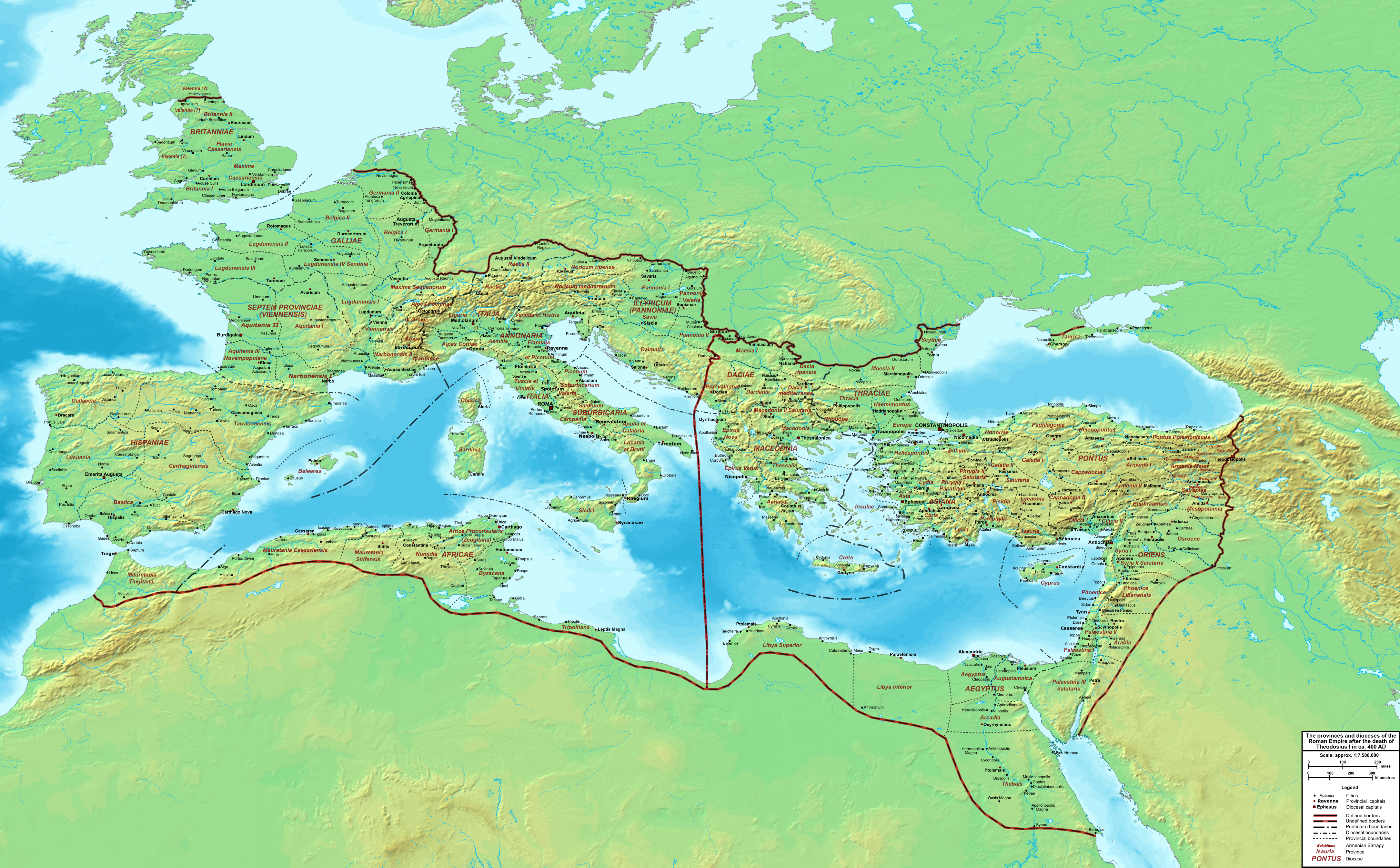 Map of the Roman Empire ca. 400 AD, showing the administrative division into dioceses and provinces, as well as the major cities. The demarcation between Eastern and Western Empires is noted in red.